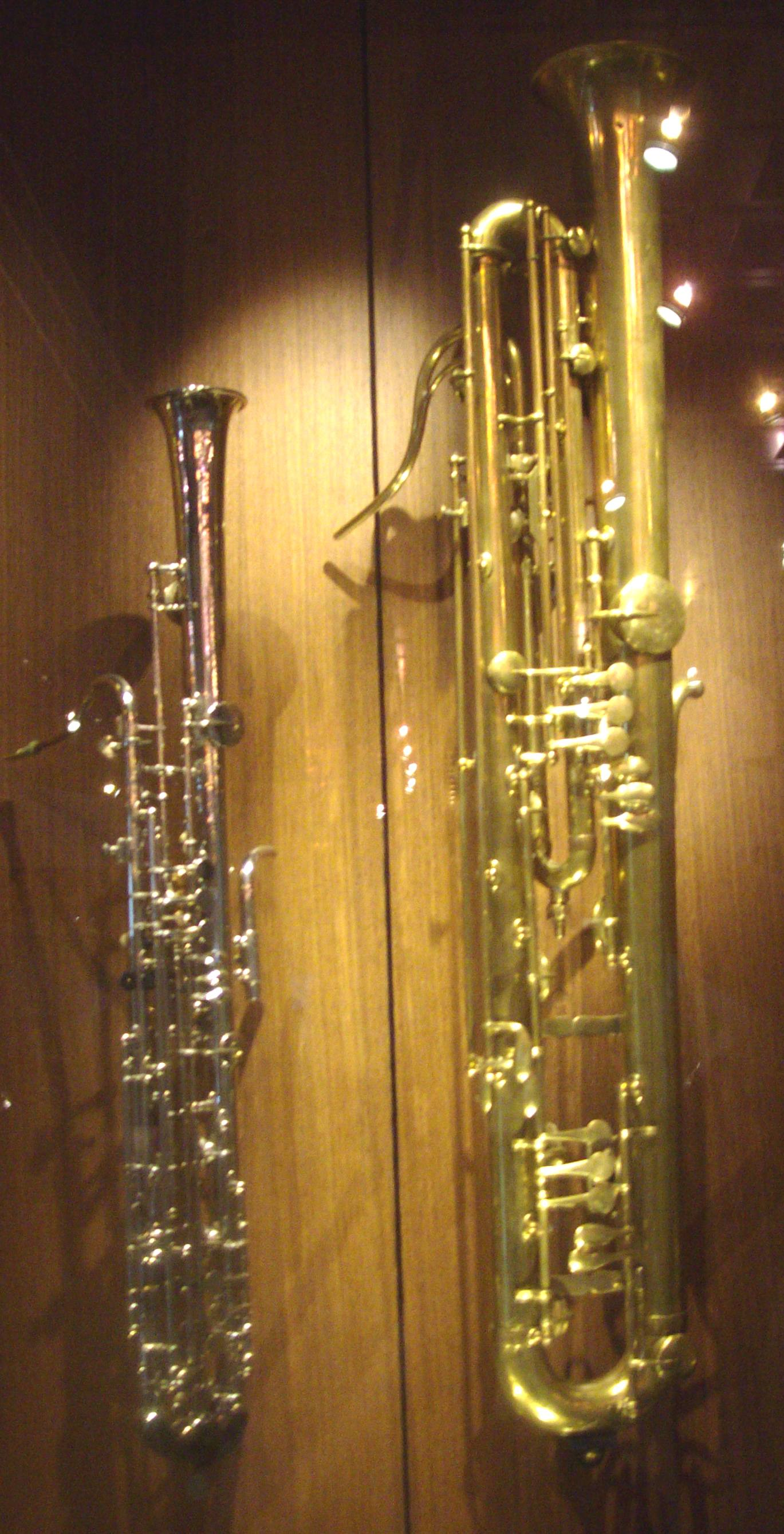 Two sarrusophones - windwood musical instrument